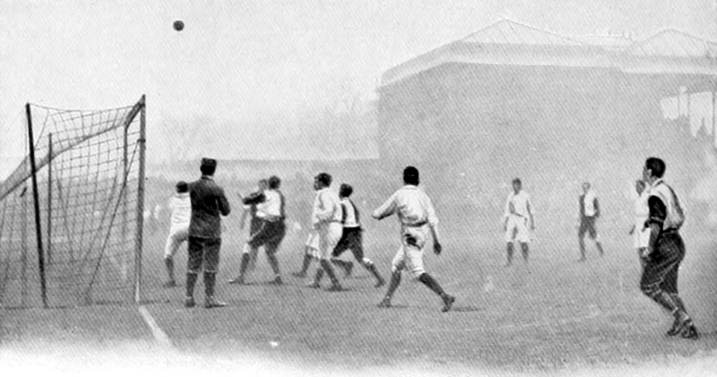 Scene of an Oxford v Cambridge match, with a korner kick taken by Oxford.